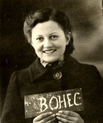 Jeanne Bohec (1919-2010), French Resistance woman fighter, member of the Free French Forces.